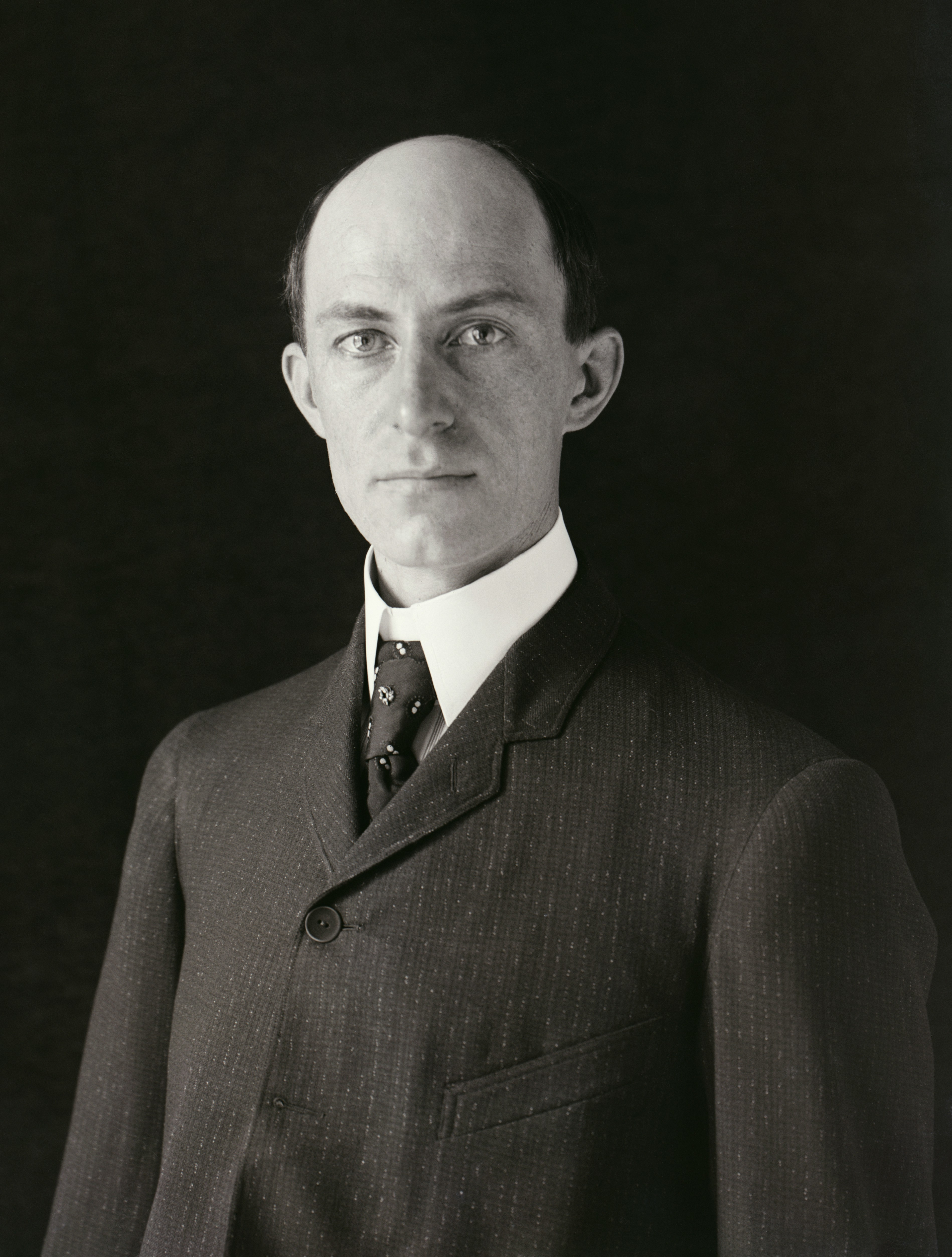 Wilbur Wright, age 38, head and shoulders.